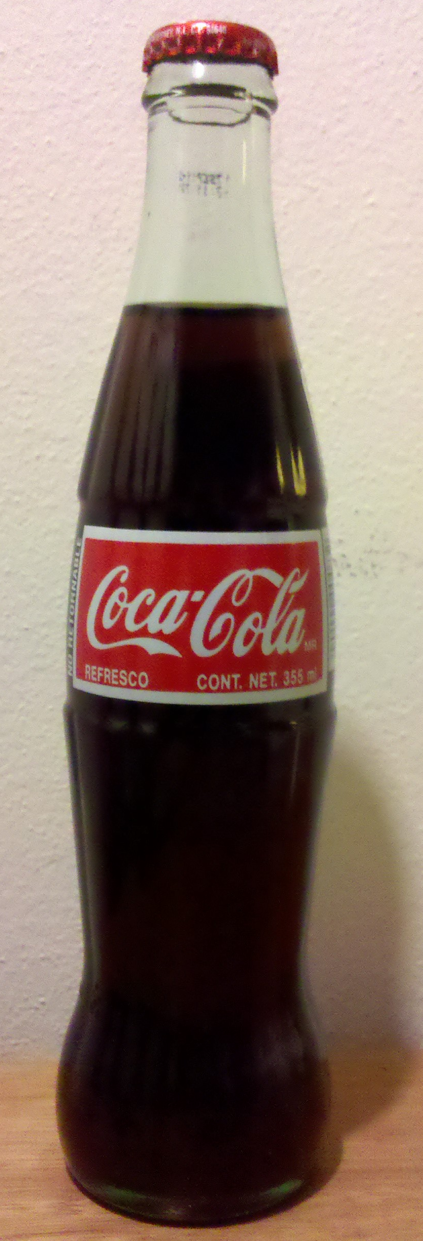 A Bottle of Mexican Coke.